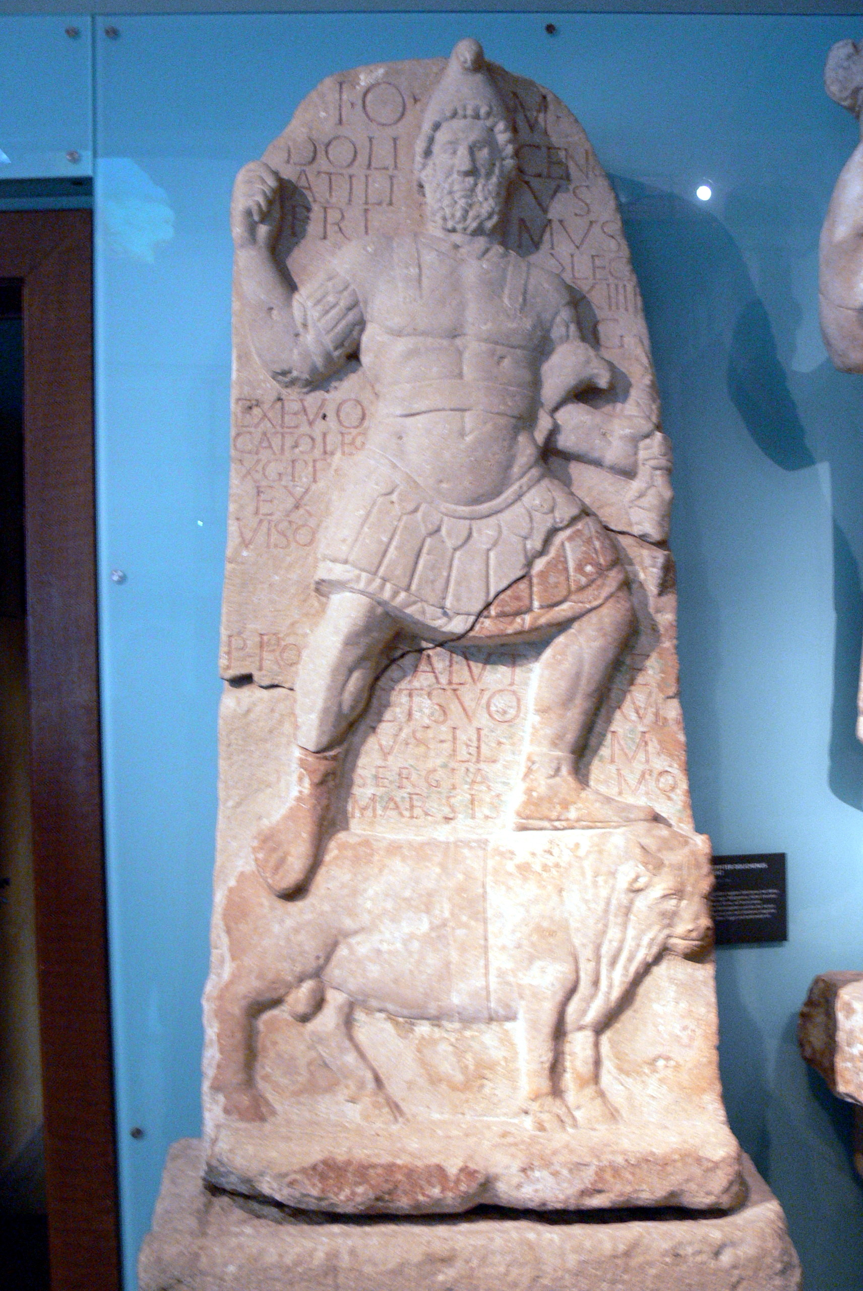 Museum Carnuntinum ( Lower Austria ). Votive relief ( 2nd century ) to Iupiter Dolichenus, dedicated by Attilius Primus, centurio of legio XIV gemina.